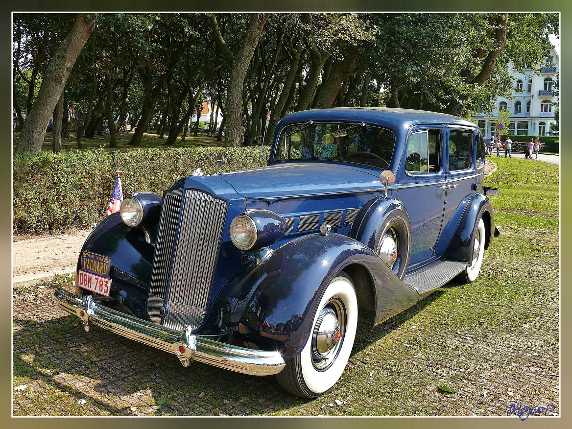 Packard One-Twenty Sedan; 15th series, model 120-C (1937)